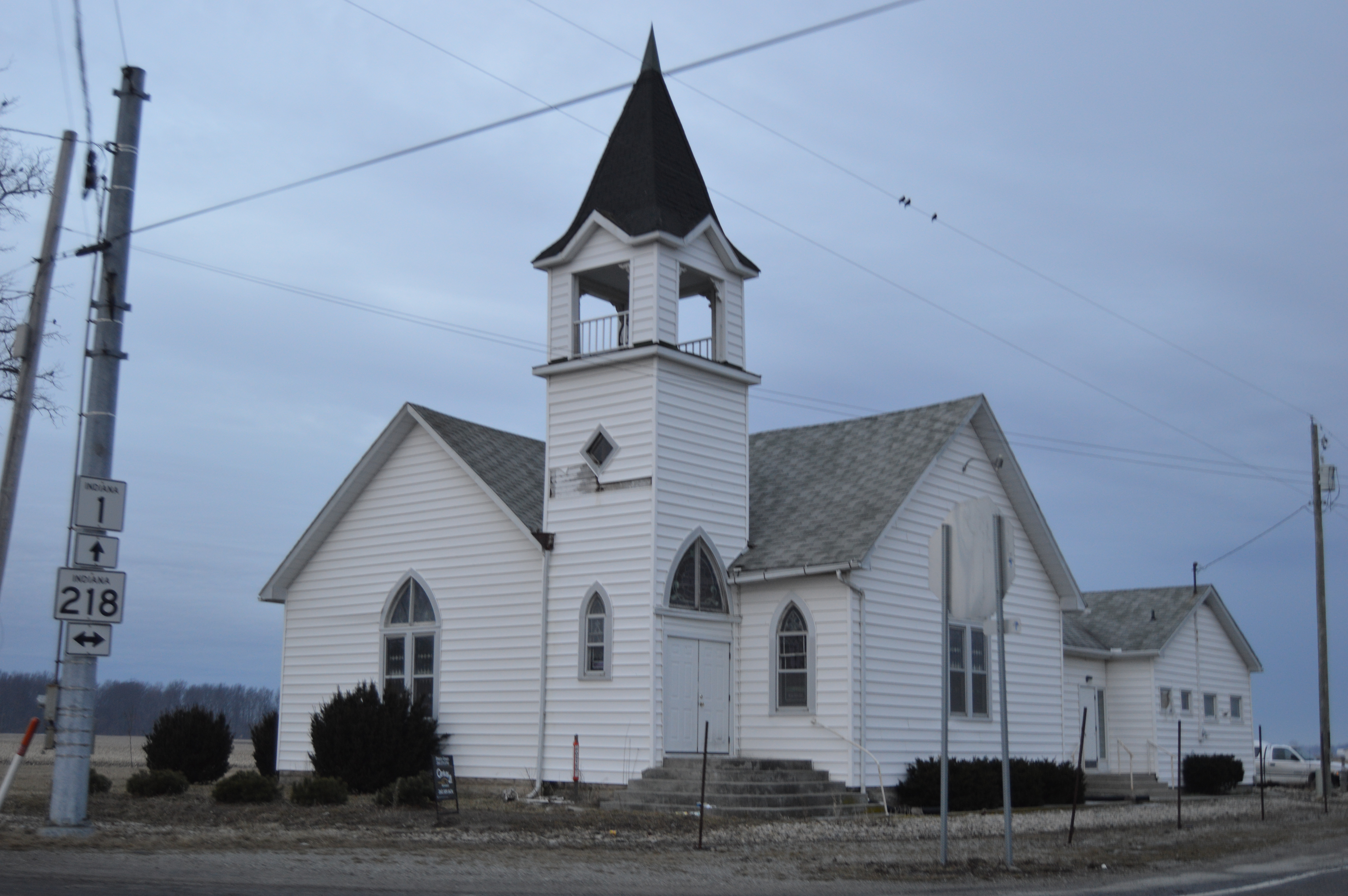 Front and side of the former Reiffsburg United Methodist Church (now a house), located on the southwestern corner of the junction of State Roads 1 and 218 in Reiffsburg, Indiana, United States.